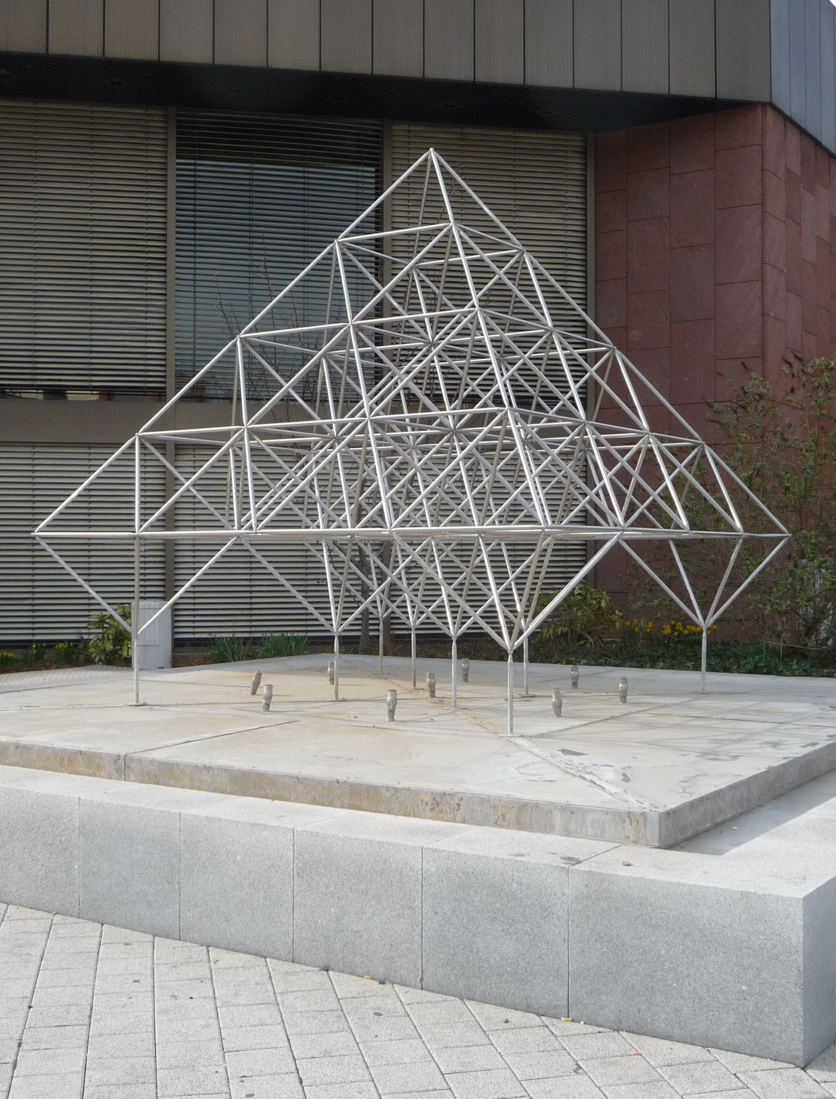 Sculpture Raumskulptur (1979) by Eugen Roth in Ludwigshafen, Germany